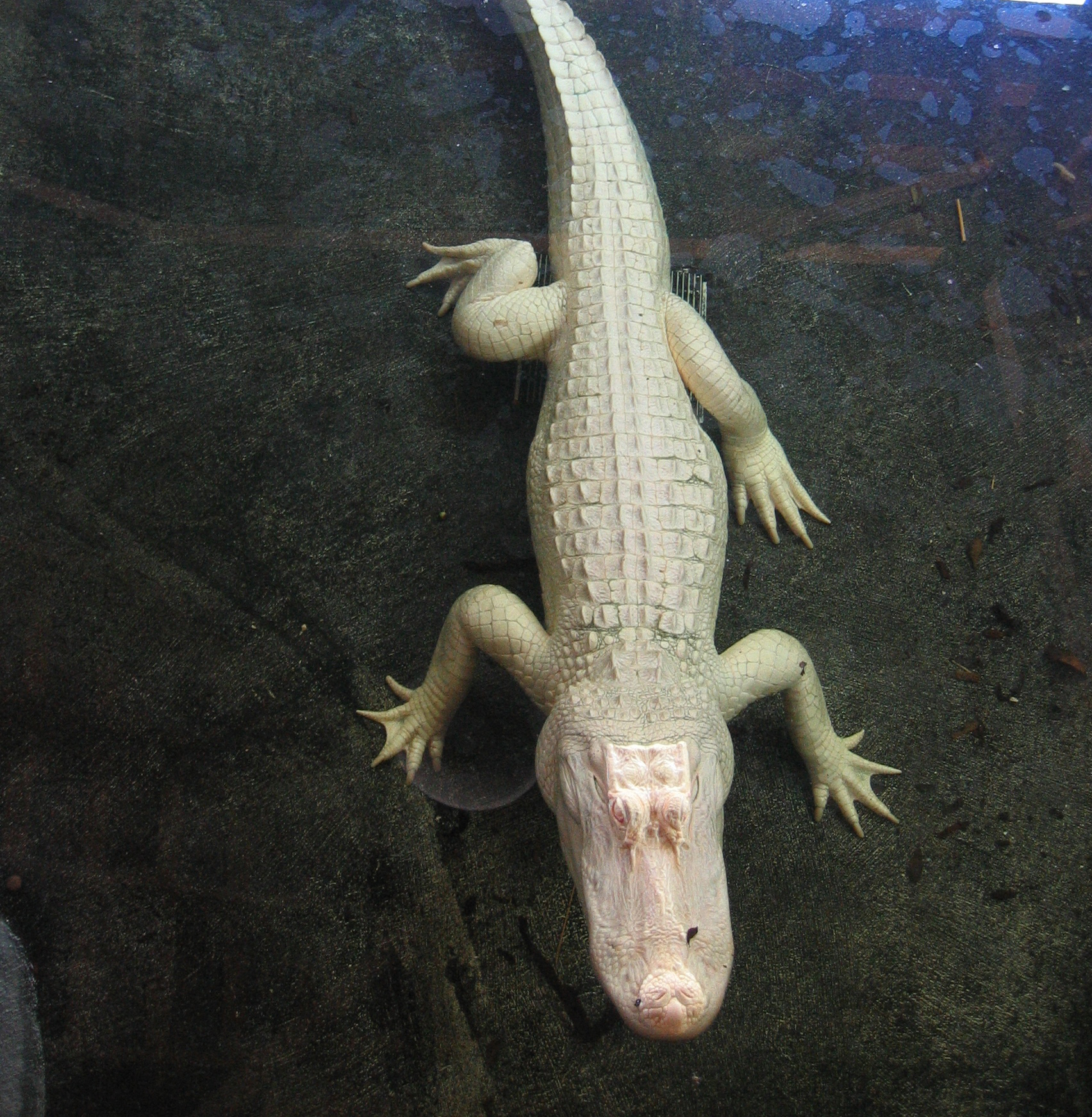 Photo of a albino alligator in Florida, USA, one of 22 in existence.